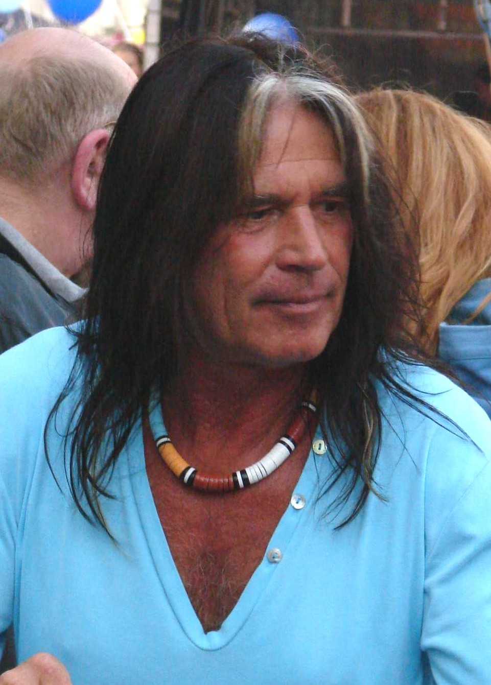 Austrian singer Hans Kreuzmayer, group Waterloo & Robinson, Viktor-Adler-Markt, Vienna, Austria, cut picture